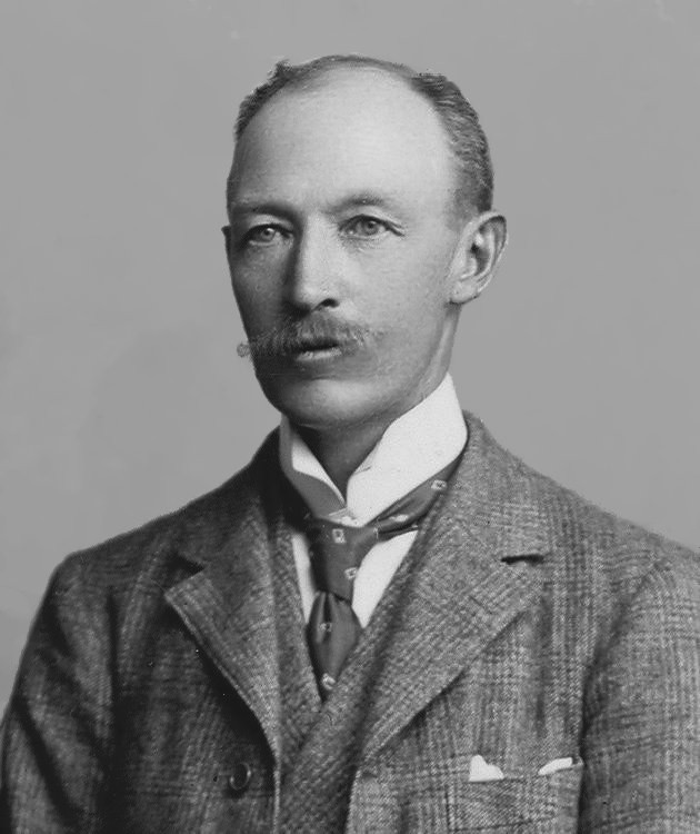 John Frederick Inglis (1853-1924), Kent cricketer